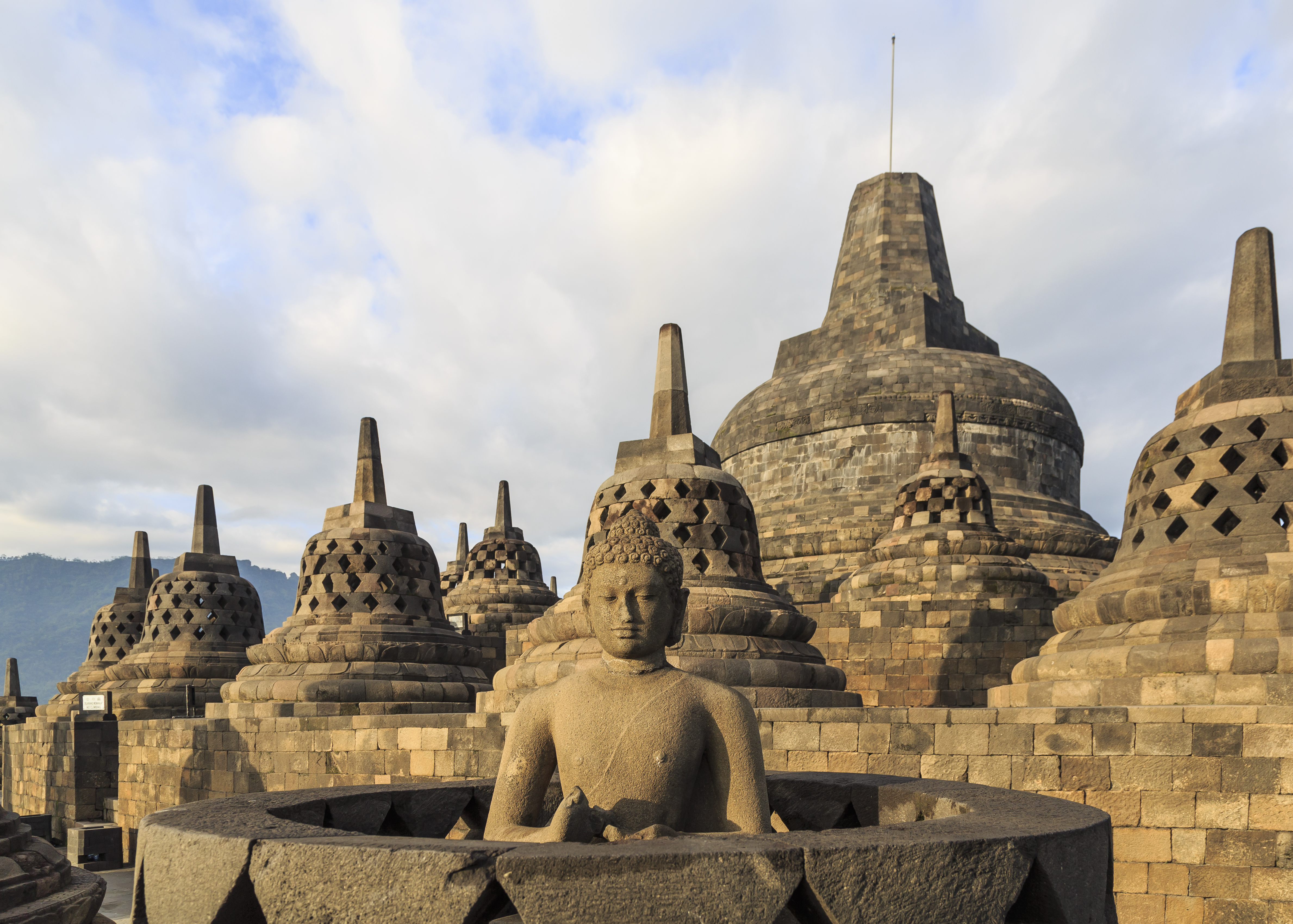 Borobudur temple Park, Indonesia: Open stupa at sunrise.